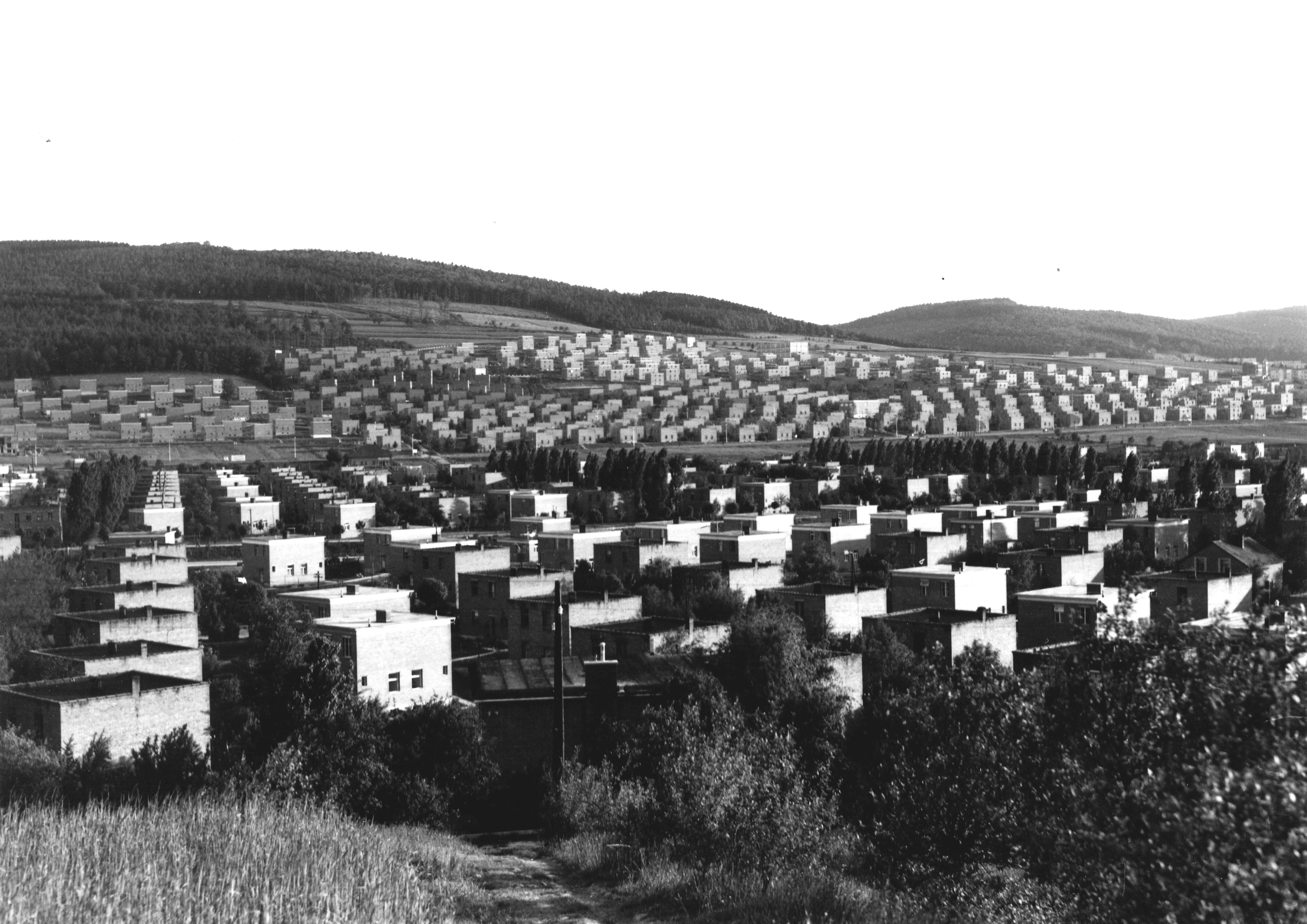 Corporate Town of Zlin (Czech Republic, former Czechoslovakia)